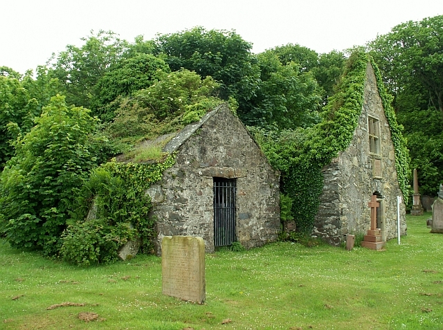 Ruins of Leswalt Old Church Not much of the medieval parish church remains standing. The main part, the nave, would have been just behind the building on the right, where a mass of vegetation is now growing. The taller gable is part of the Agnew aisle, added during the 17th century. The window was to the "Laird's Loft", a private gallery for the Agnew family of Lochnaw Castle. For more information .